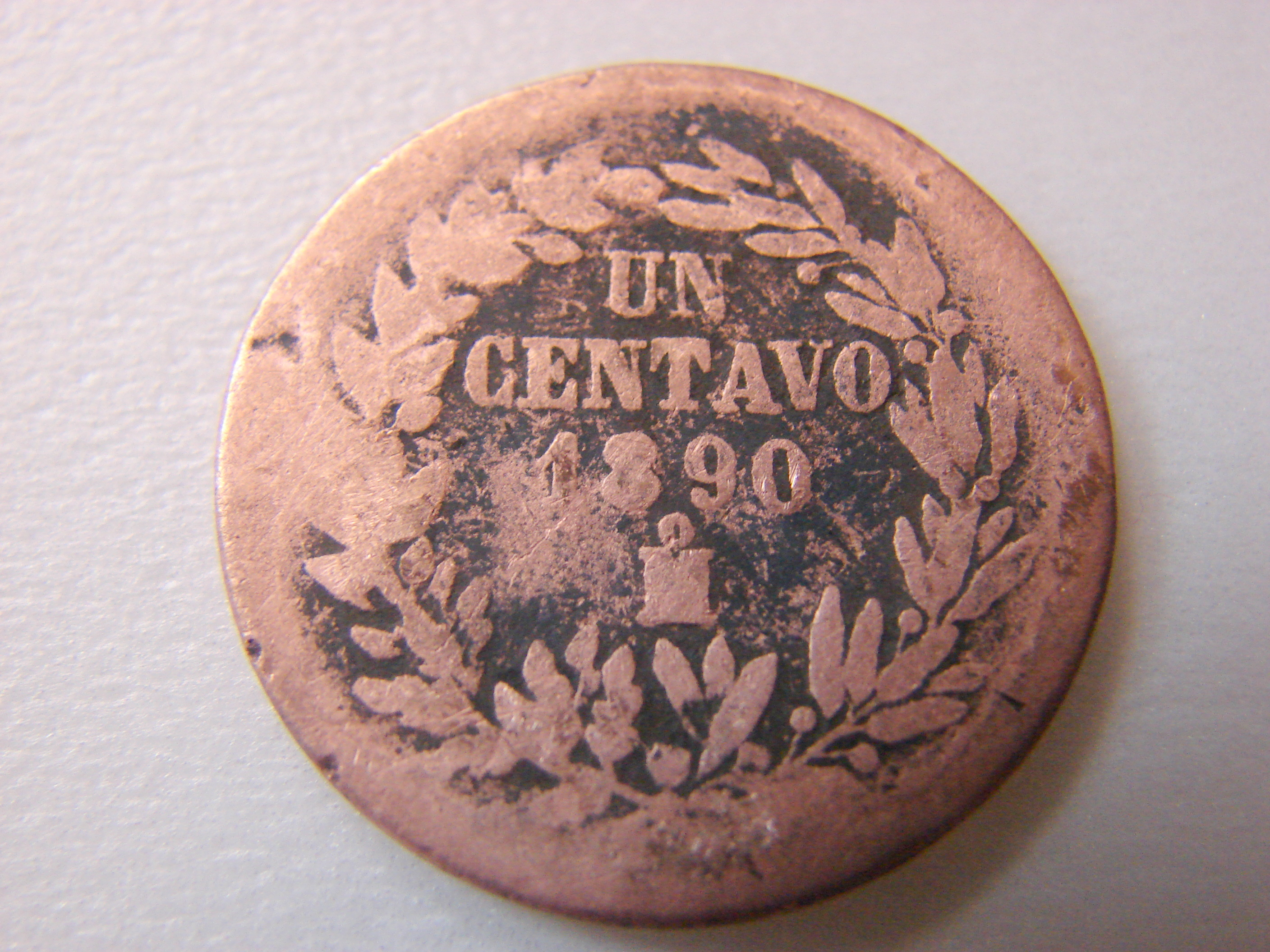 One cent coin of Mexico in regular condition, of my private colection